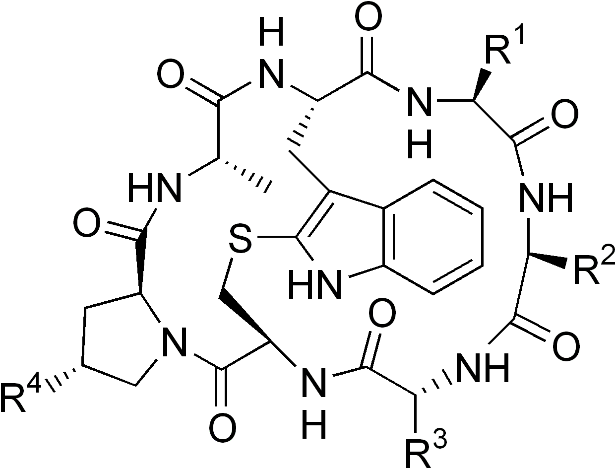 general chemical structure of phallotoxins